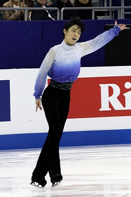 Yuzuru Hanyu at 2015 Figure Skating World Championships